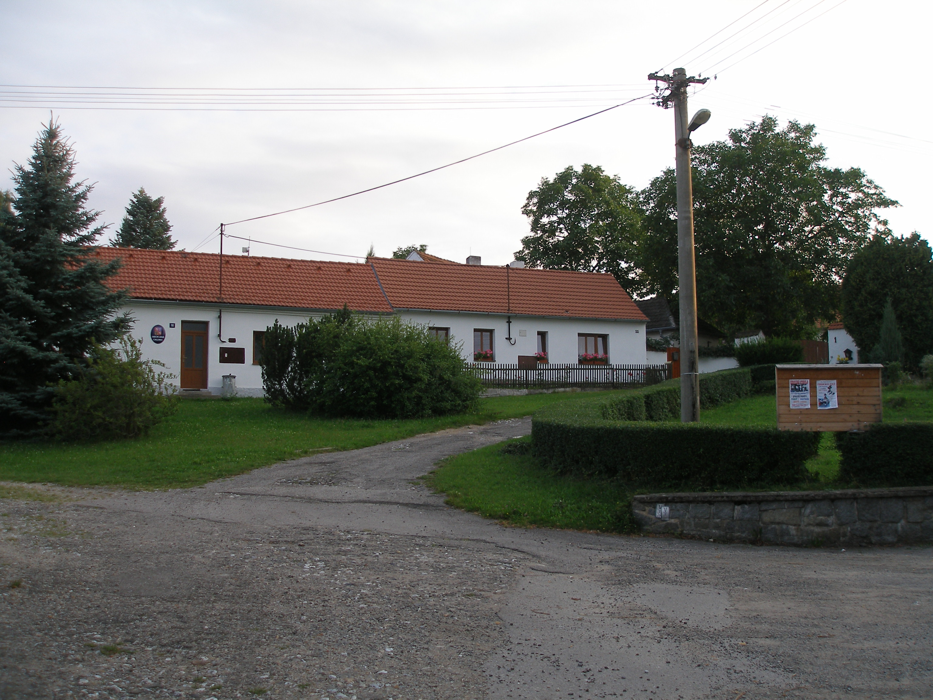 Chlumec (Český Krumlov District) - the municipality office